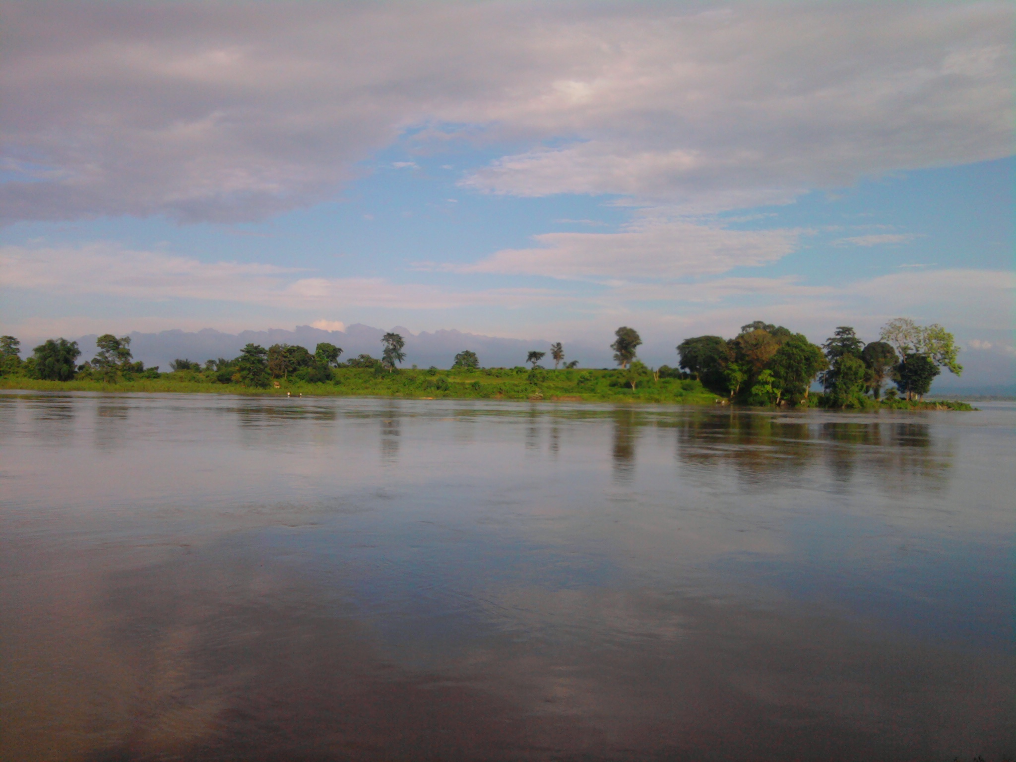 A view of the umatumi island .